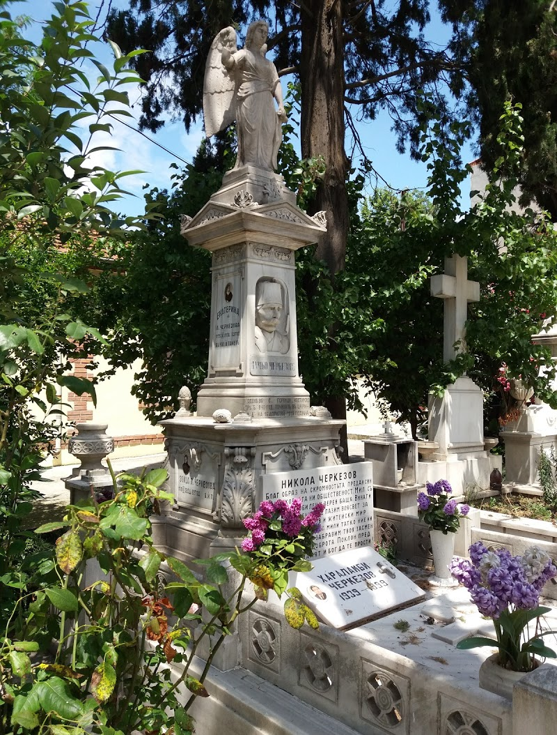 Bulgarian Cemetery in Istanbul